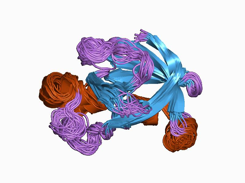 Cartoon representation of the molecular structure of protein registered with 1bw4 code.